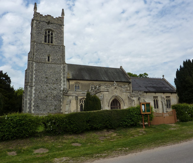 Church of St Margaret in Thrandeston, Suffolk, England. A Grade I listed medieval church.